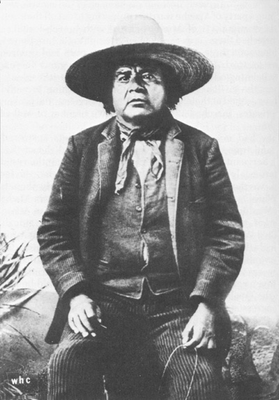 Picture of the Aravaipo Apache chief Eskiminzin